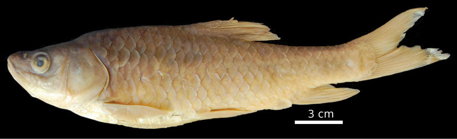 Carasobarbus apoensis, holotype (BMNH 1976.4.7:166) from a permanent stream near Khamīs Mushayt, Saudi Arabia. The Natural History Museum, London.